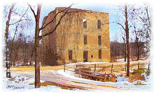 The Oxford Mill near Cannon Falls, MN, is the most intact example of a typical Cannon Valley mill. Because of this reason, it has earned National Register of Historic Places designation.